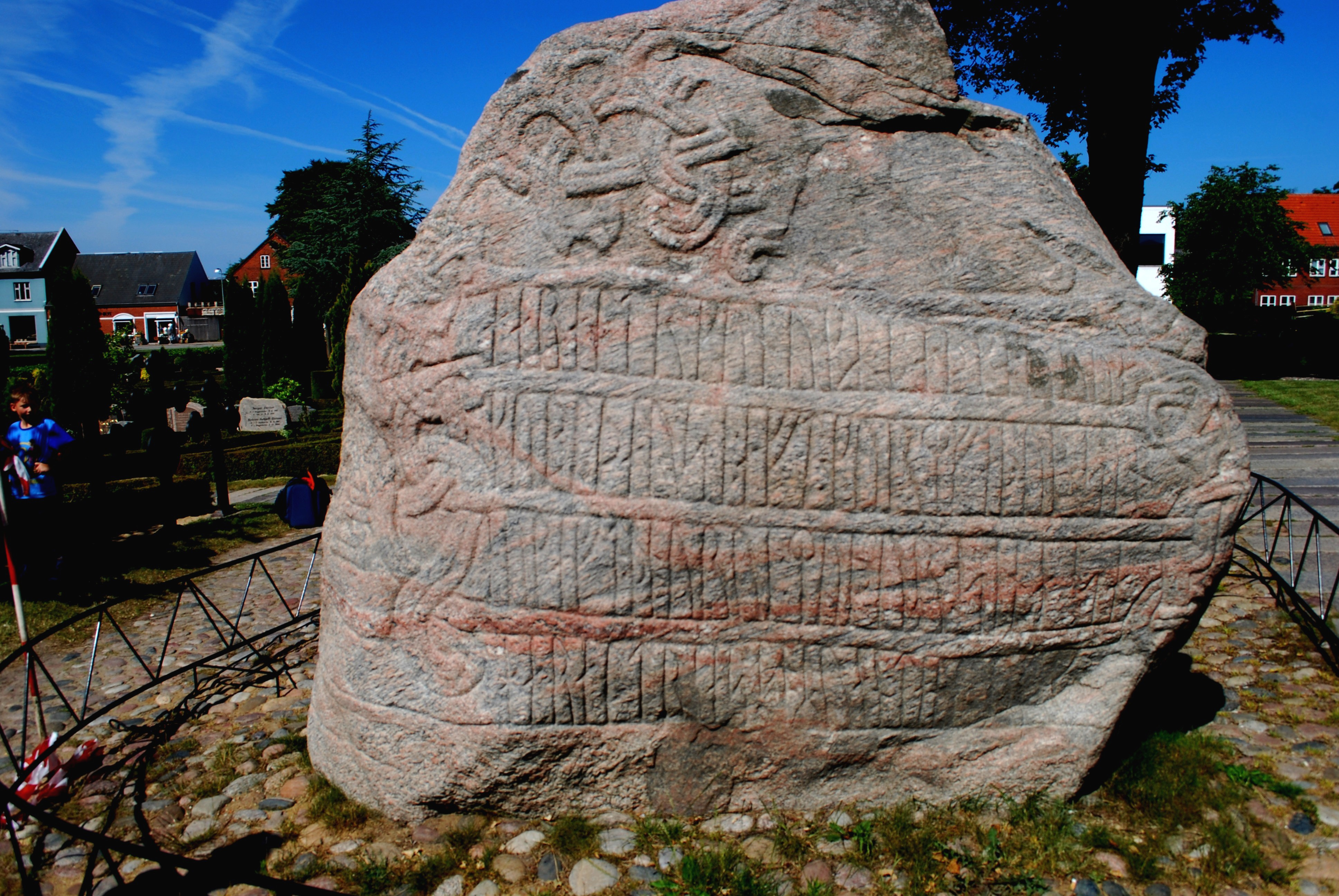 Jelling stones - Jelling - Denmark